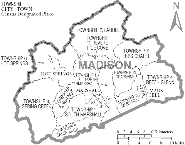 Map of Madison County, North Carolina, United States with township and municipal boundaries